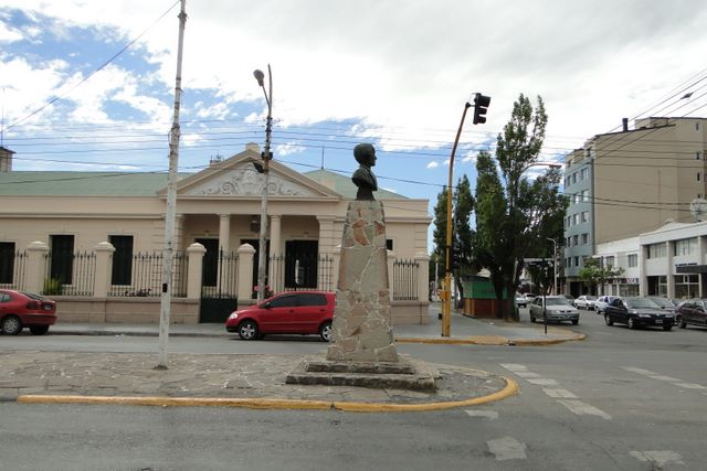 Federal Courthouse. San Martín 709, Río Gallegos, Argentina.